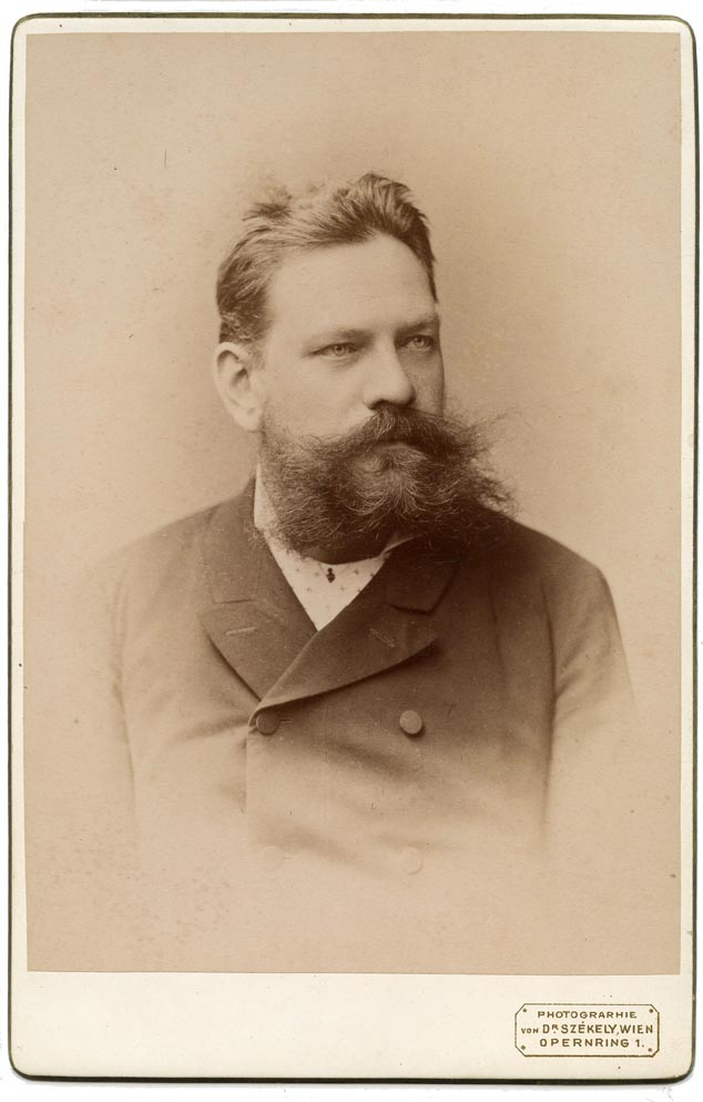 Dr. Richard Godeffroy, Portrait, about 1879